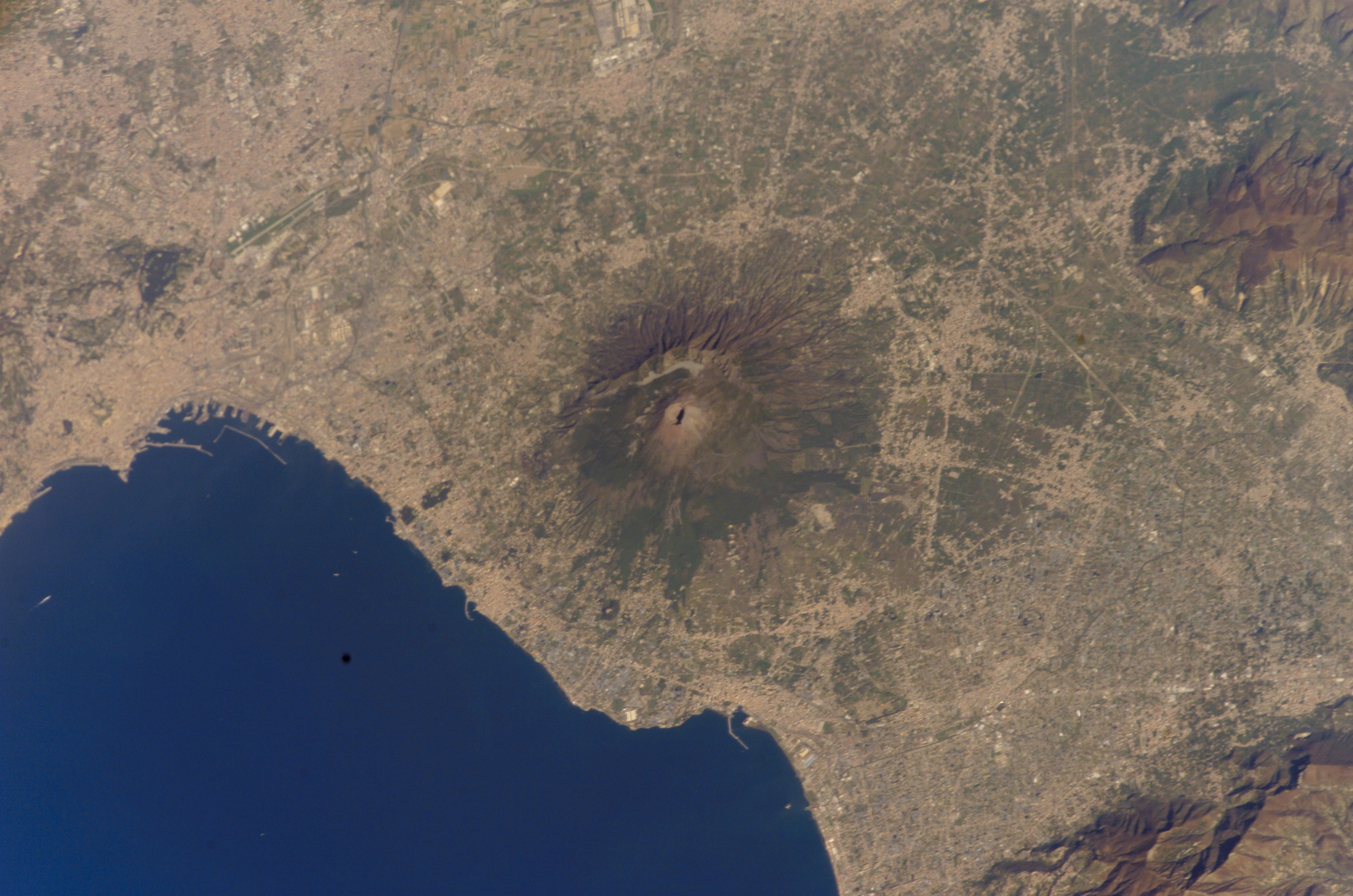 Naples, Vesuv